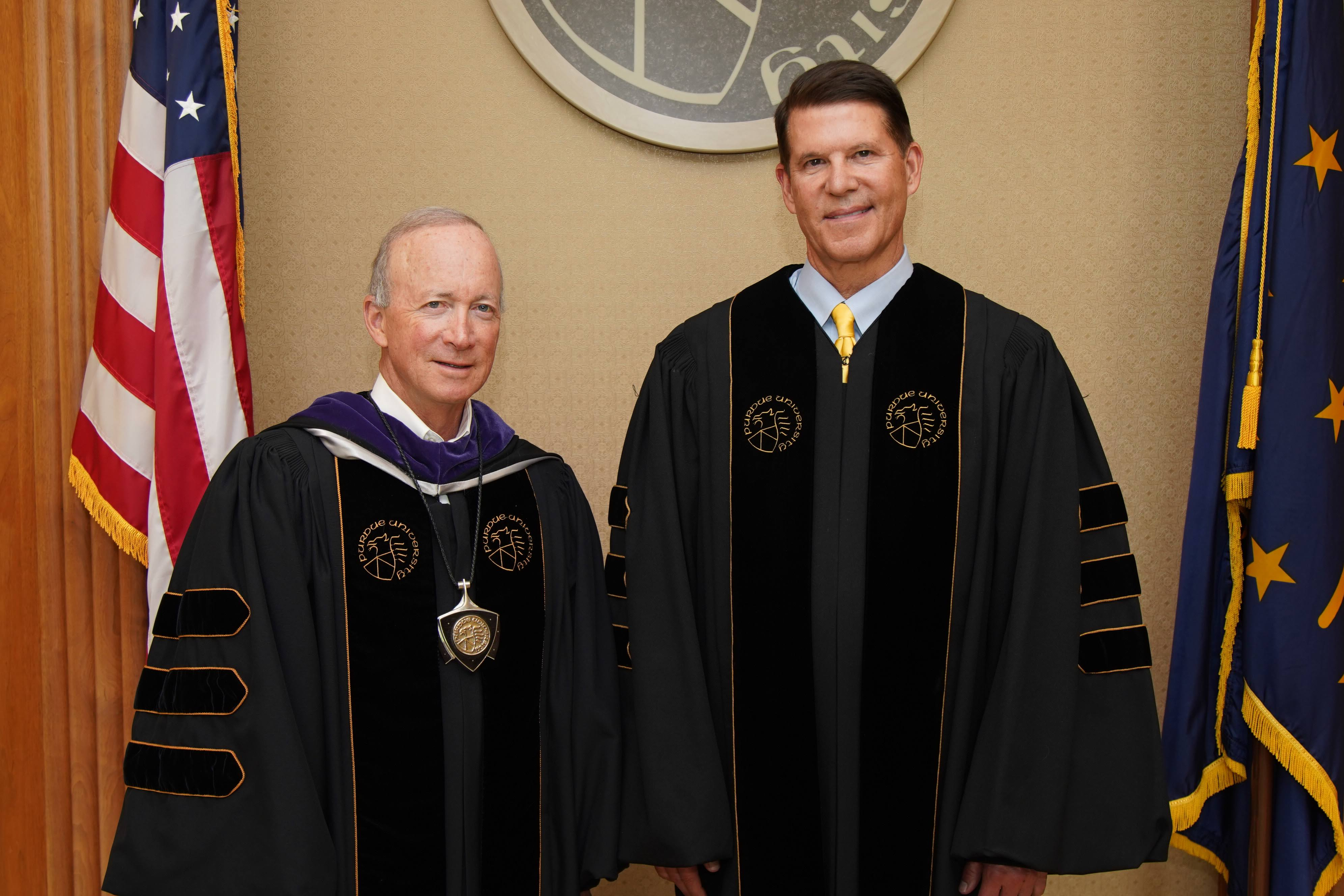 Keith Krach stands with Mitch Daniels, President of Purdue University and former Governor of Indiana